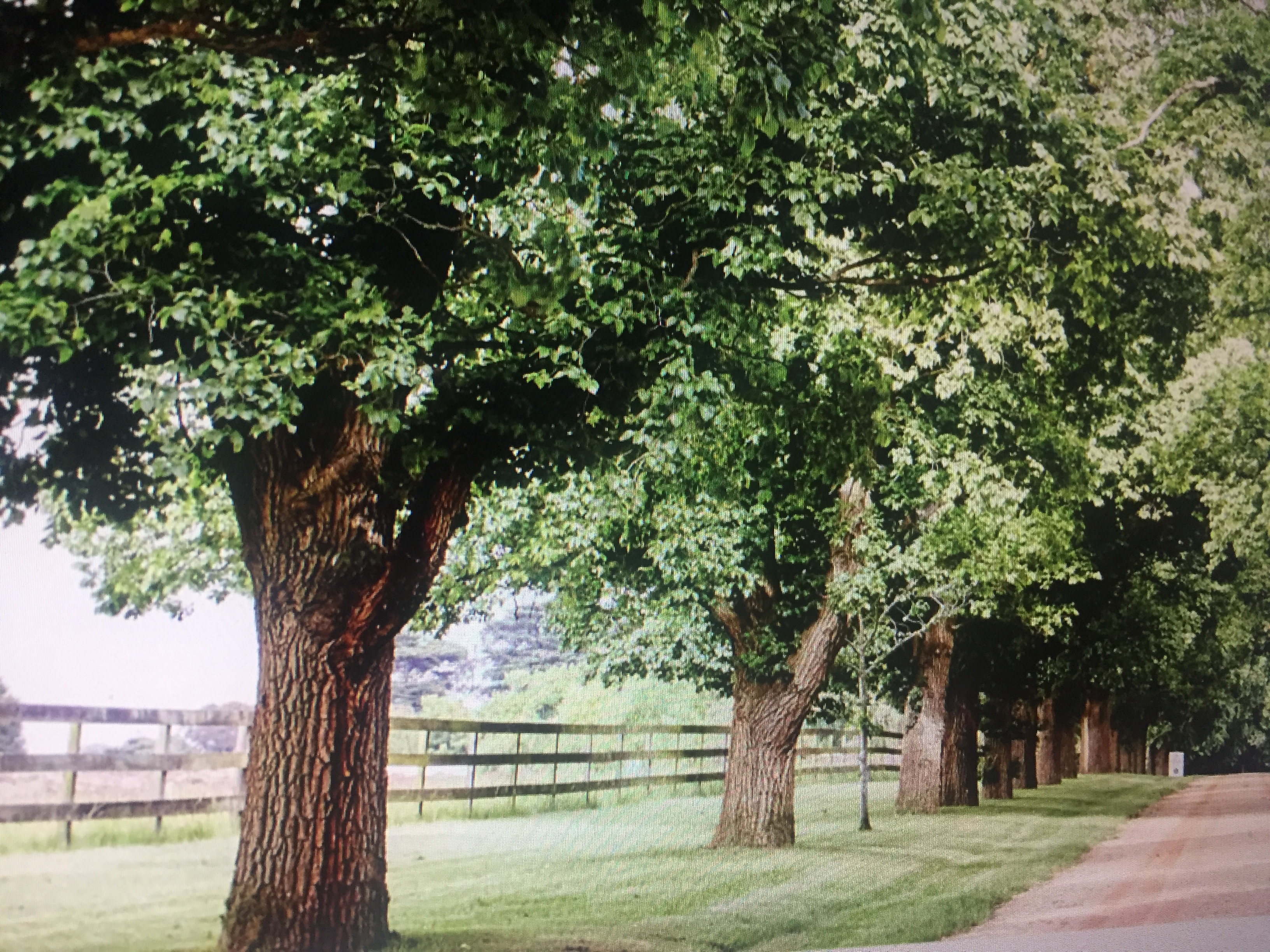 Tulliallan Elm Trees Side View